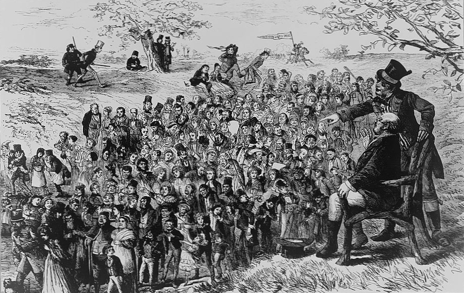 "Characters from the books of Charles Dickens." Library of Congress description: "An elderly man, possibly Charles Dickens, seated in a chair as a mob of fictional characters from books by Dickens passes before him." The man seated in the chair is more probably Mr. Pickwick, a character from Charles Dickens’ first novel The Pickwick Papers, listening to his astute and humorous valet, Sam Weller, as he points out other characters from Dickens’ books. For example, midway up the left edge, from A Christmas Carol, are Ebenezer Scrooge in a night cap, and Bob Cratchit carrying his crippled son, Tiny Tim. In the bottom left corner, from The Old Curiosity Shop, are Little Nell and her grandfather. Fagin, from Oliver Twist, is third from the left in the front row with Mr. Bumble (in the bicorn or cocked hat), his wife Widow Corney, Oliver Twist, the Artful Dodger, and Charley Bates nearby.